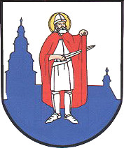 Coat of Arms of Kirchworbis First upload in de-wp: Ricky w (09:12, 12. Okt. 2005)